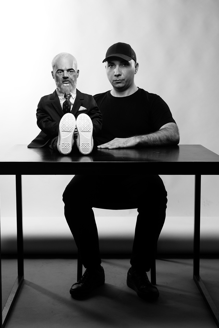 One of the projects of Armando Lulaj, a Tirana-based artist, featuring Edi Rama, PM of Albania